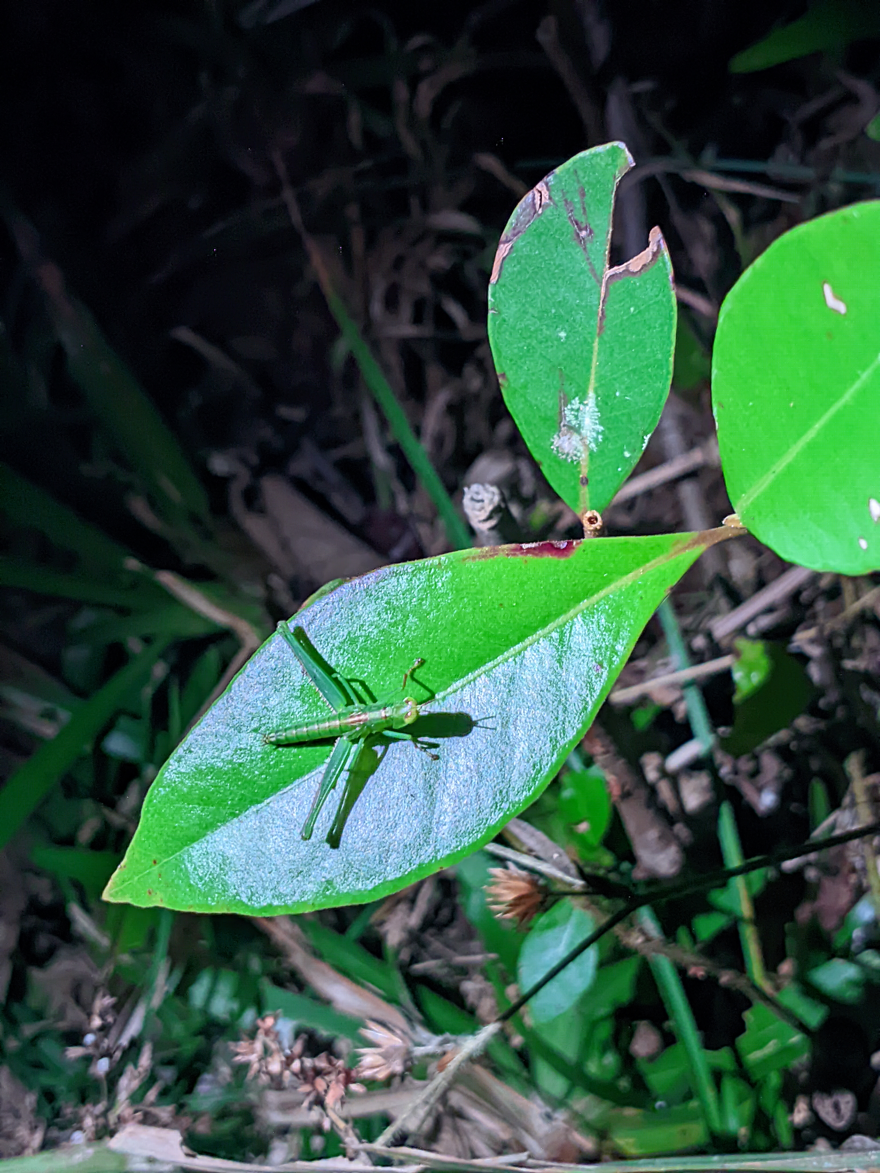 Author: Ramanarayanadatta astri Volume: 2 Publisher: [Gorakhpur Geeta Press] Possible copyright status: NOT_IN_COPYRIGHT Language: Hindi Call number: AAO-3248 Digitizing sponsor: University of Toronto Book contributor: Robarts - University of Toronto Collection: robarts; toronto Full catalog record: MARCXML [Open Library icon]This book has an editable web page on Open Library.